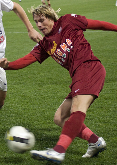 CFR Cluj - GLORIA Bistrita 1- 0